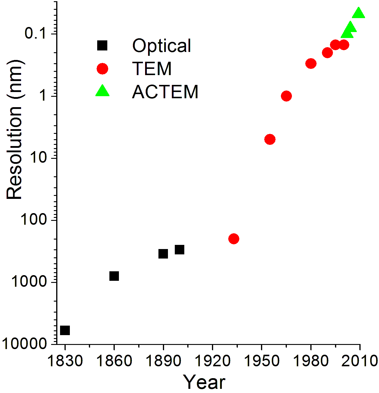 Resolution of optical, transmission (TEM) and aberraction-corrected transmission electron microscopes (ACTEM). Replotted from (2011). "Materials Advances through Aberration-Corrected Electron Microscopy". MRS Bulletin 31: 36.